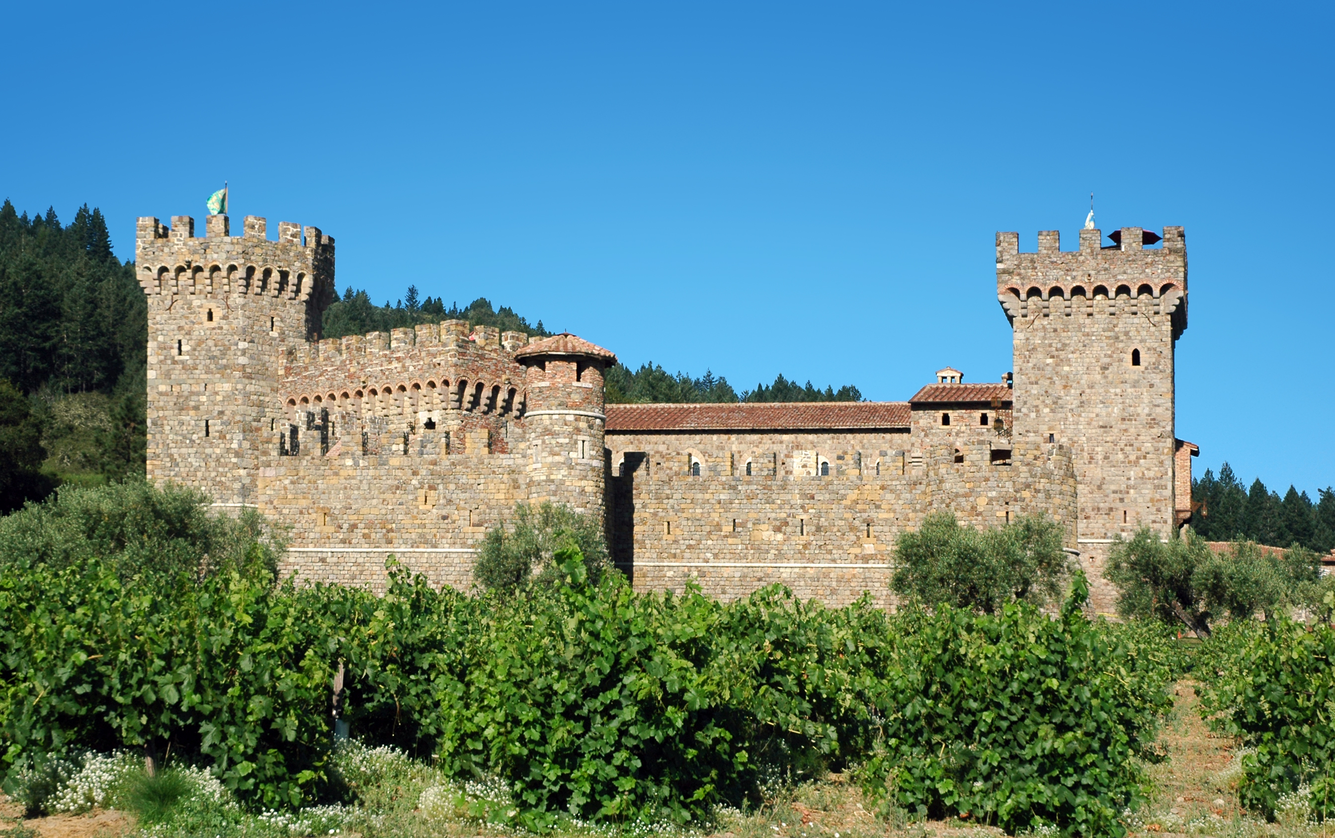 Castello di Amorosa in Napa Valley, California.